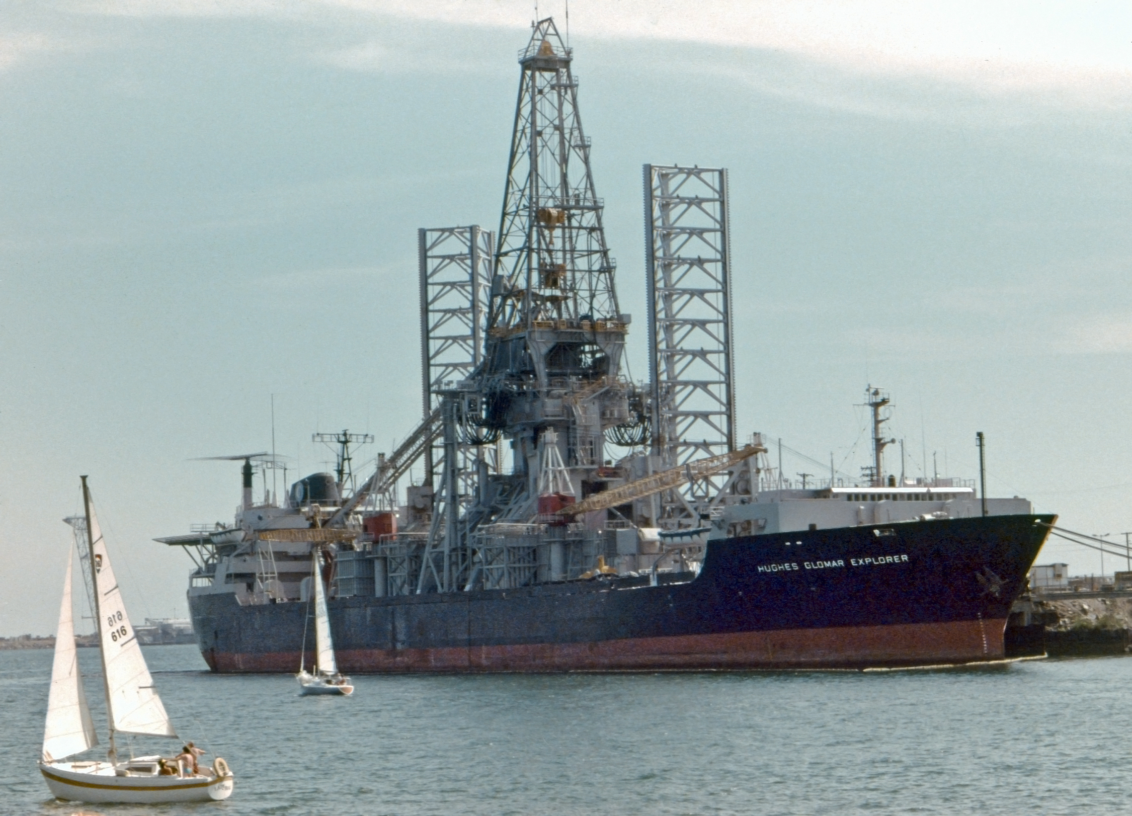 The Hughes Glomar Explorer sitting at its dock in Long Beach, California. In 1974 the ship had tried to recover a Soviet submarine that had sank in the Pacicic Ocean in 1968.